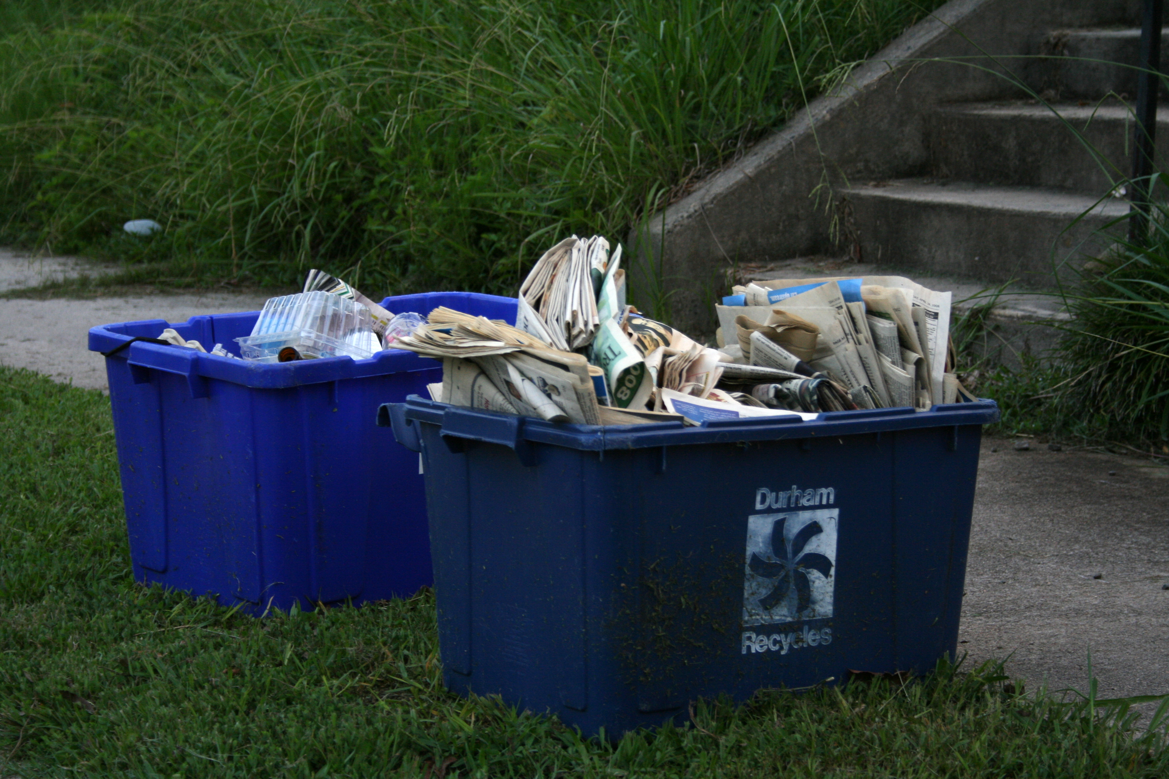 Durham recycling containers ready for pickup on the curb of Vickers Ave.